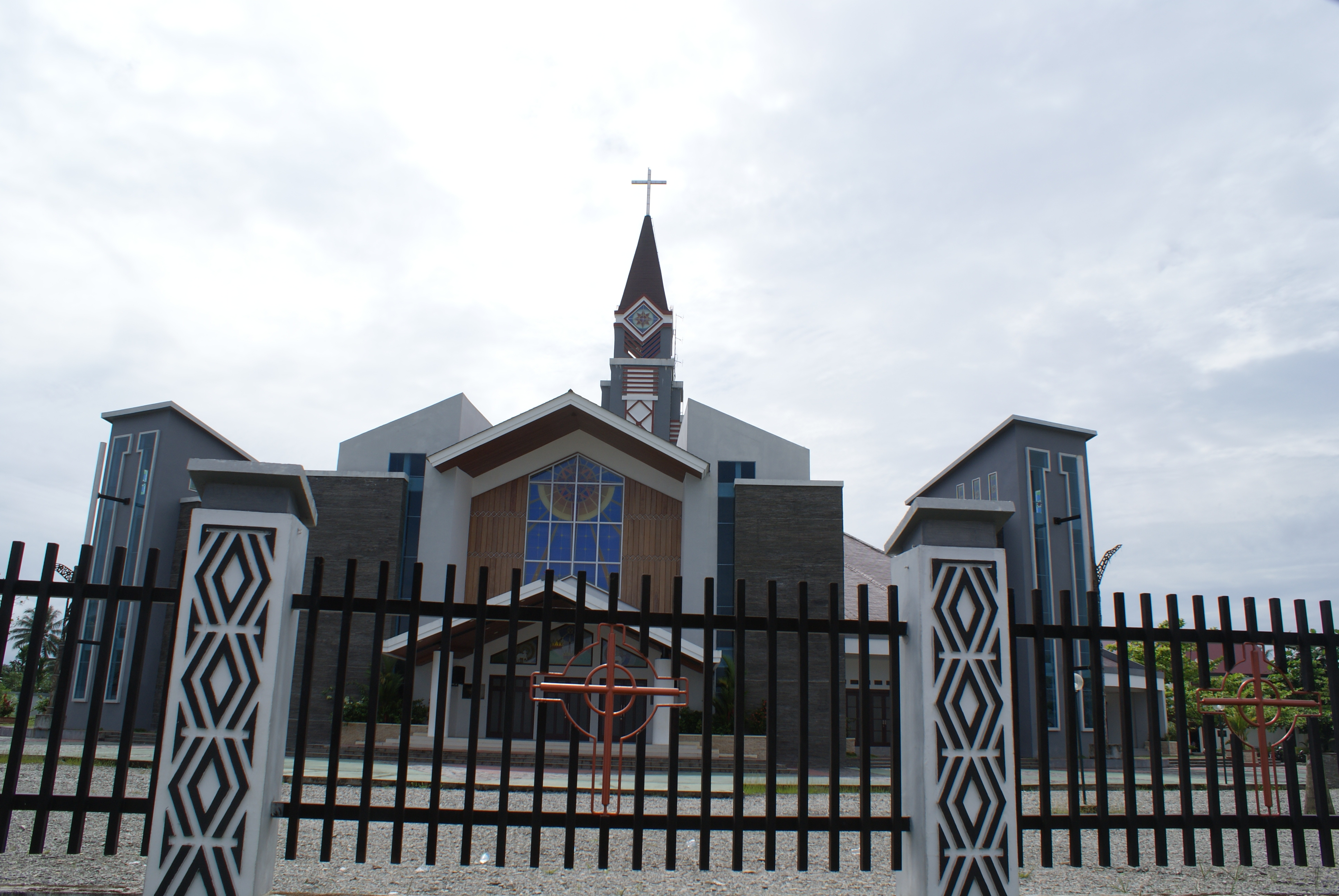 Three King cathedral in Timika, Papua